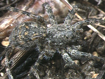 female Wadicosa okinawensis from Okinawa.